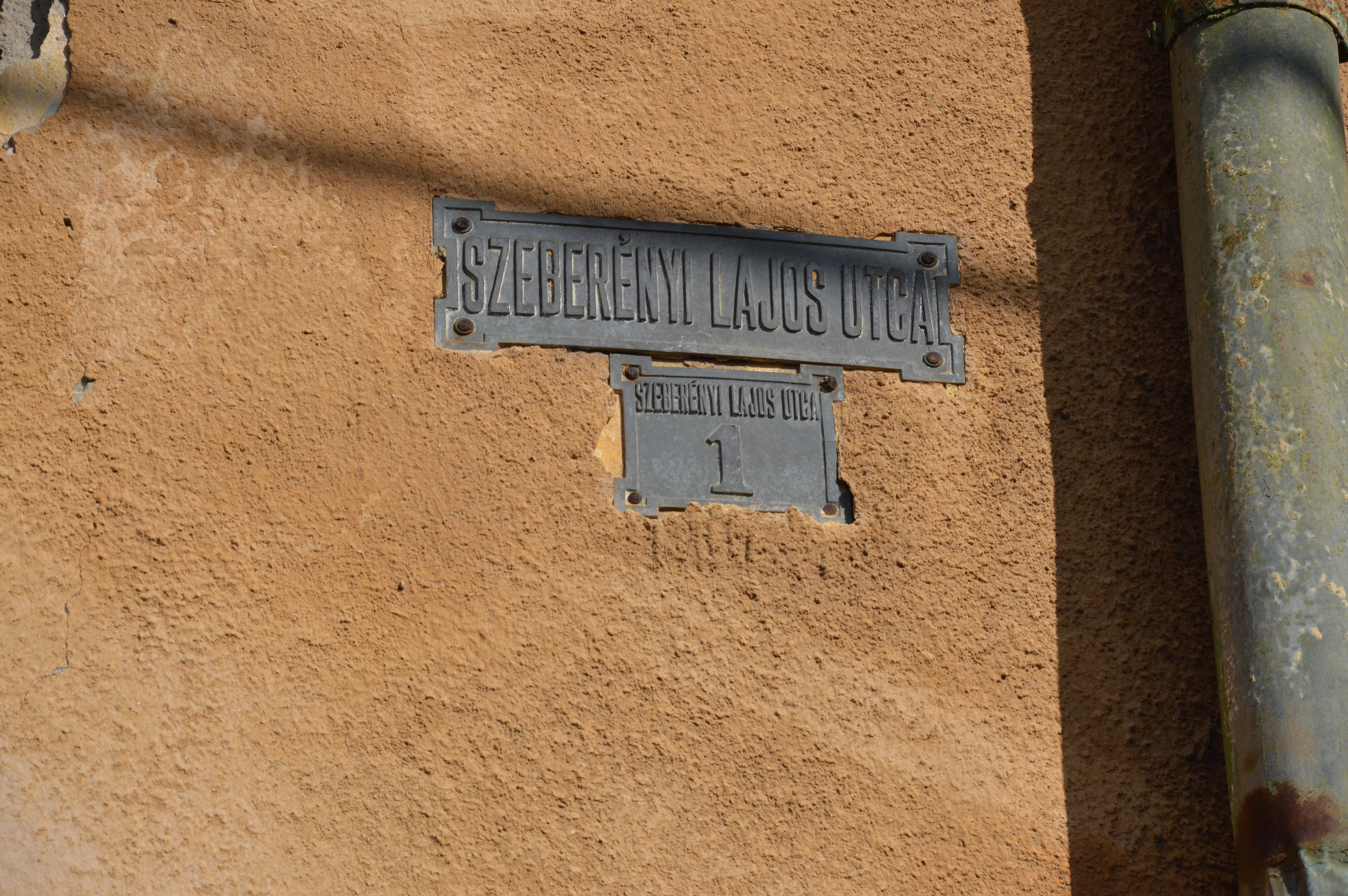 Szeberényi Lajos utca street sign in Fót, Hungary.